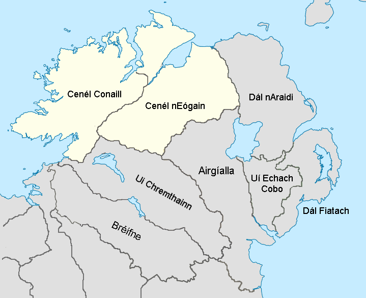 Kingdoms of the Northern Ui Neill, 12th century